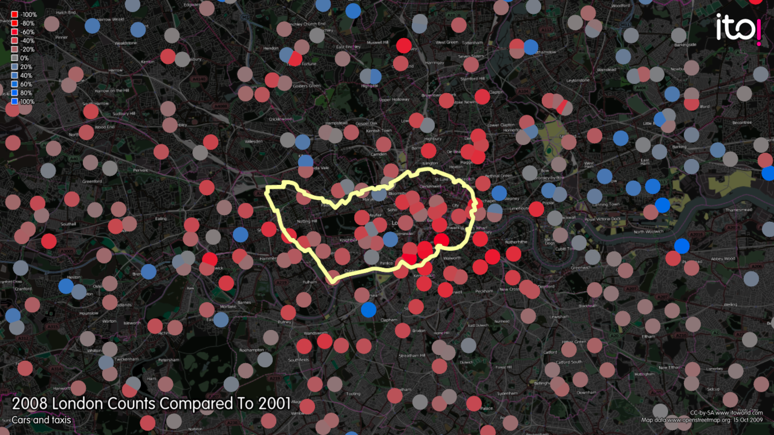 Image showing changes in the counts of cars and taxis in London at October 2008 compared to October 2001 based on official data. The London congestion charge was introduced in 2003. Red dots show a decline in vehicles, blue dots an increase. The boundary of the congestion charge is shown in white. Produced by ITO World Ltd using traffic count data published by the Department for Transport on .uk and OpenStreetMap base mapping